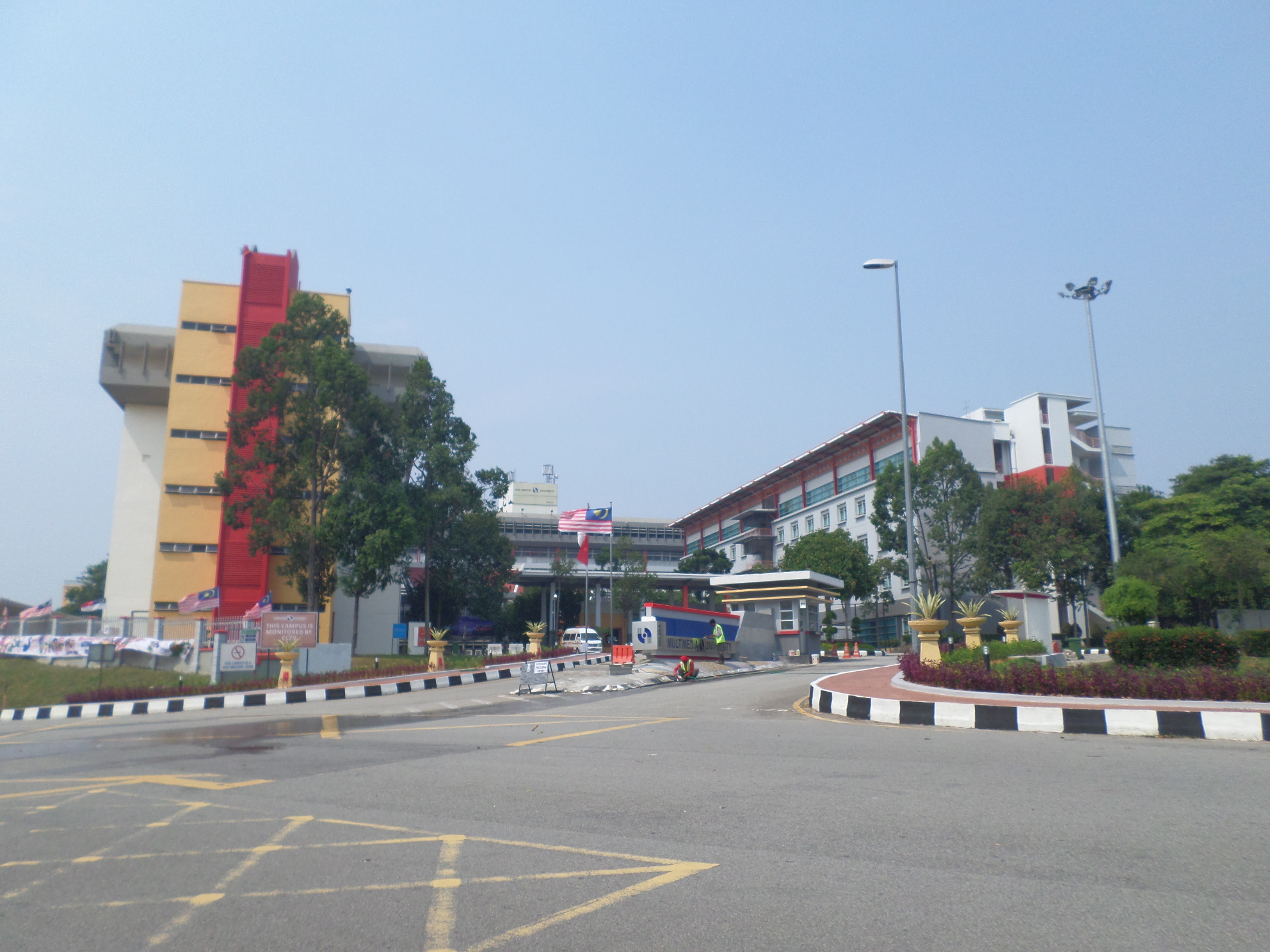 Melaka Campus, Multimedia University, Bukit Beruang, Melaka, Malaysia